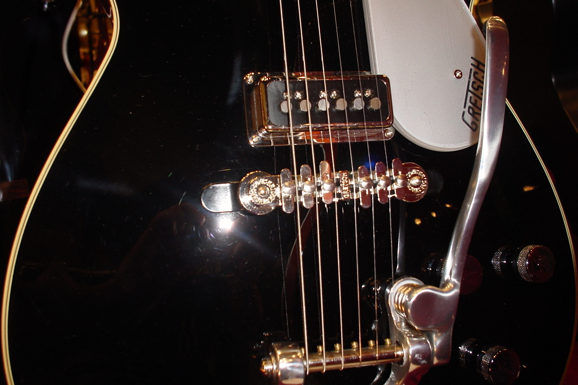 Gretsch Duo Jet G6128T DSV(with Bigsby) Zoom